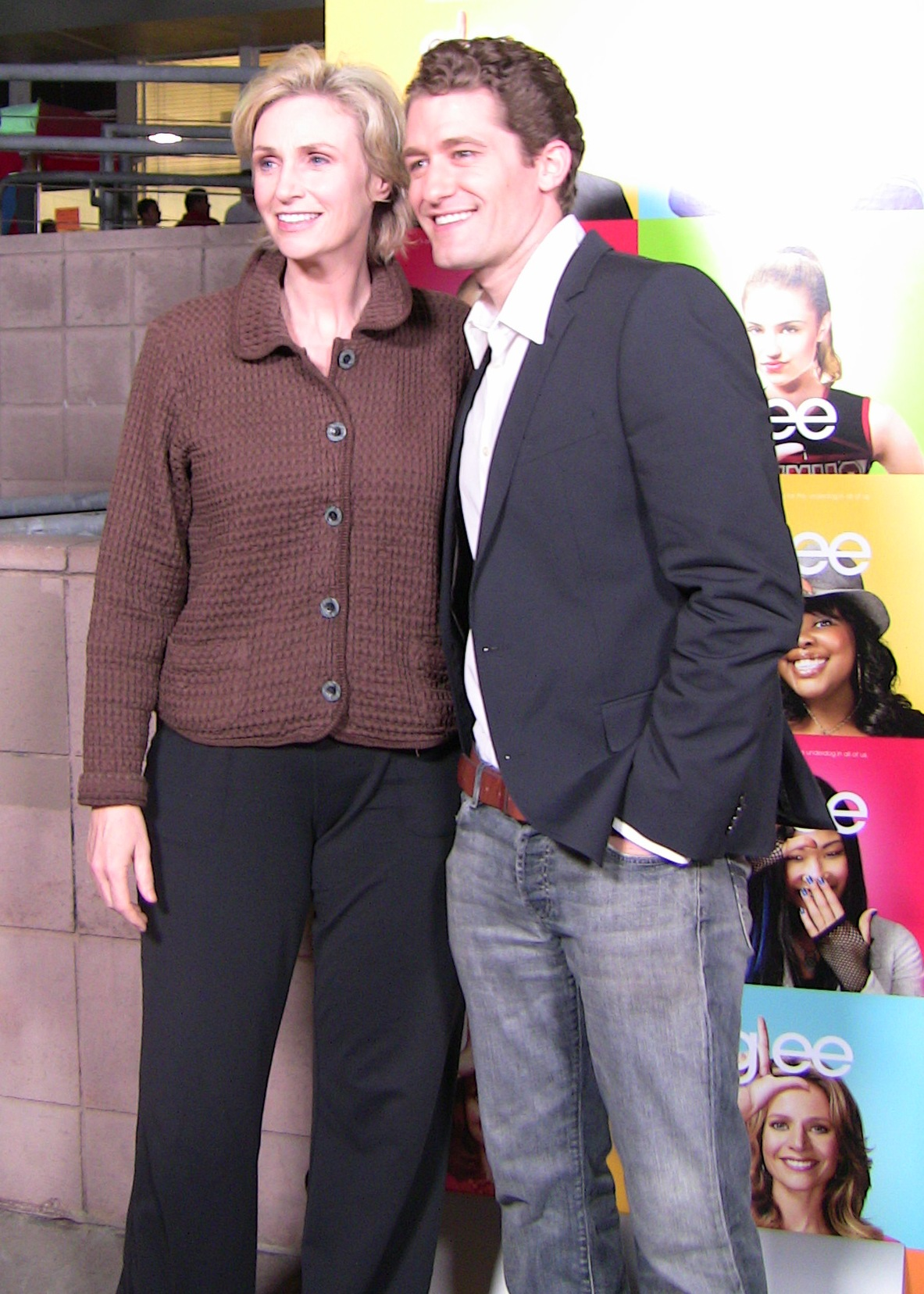 Glee Premiere Party - Santa Monica High School, Santa Monica, Calif. - May 11, 2009